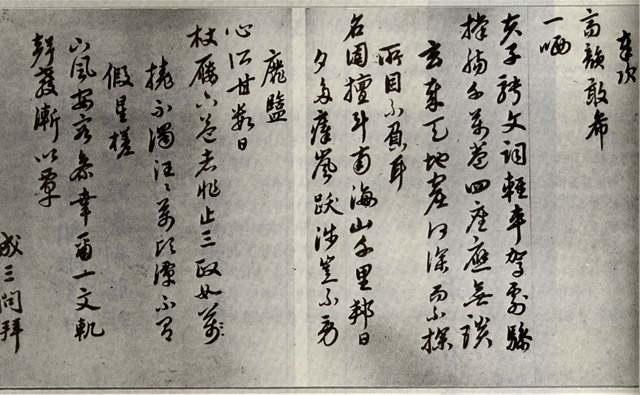 Calligraphy written by Seong Sammun, one of the Sayuksin